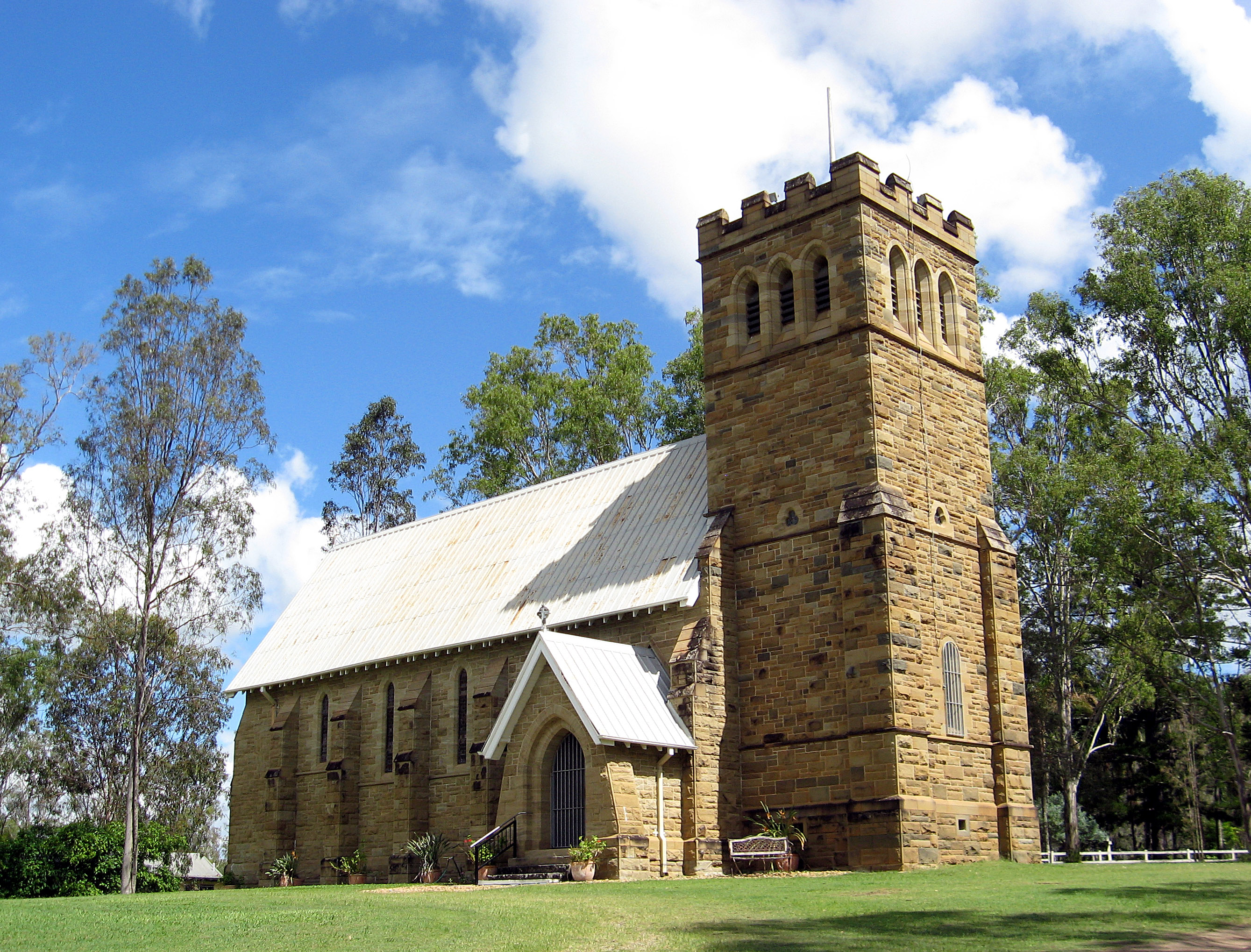 Also known as the Memorial Church of St John the Evangelist, built in 1901 by the Collins family in memory of John and Anne Collins. Situated in Mundoolun, Queensland, Australia, west of Mundoolun Road. The church was built from local sandstone to a design by John Buckeridge, Diocesan Architect of Brisbane at the time. The style is described as being of an Early English Gothic Revival Church, with the addition of a square, castellated bell tower. A foundation stone is marked: 'THIS STONE WAS LAID 22ND JUNE A.D. 1900.'. Now part of the Parish of Jimboomba, Anglican Church of Australia.